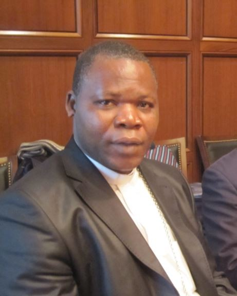 Cropped to show the Archbishop.